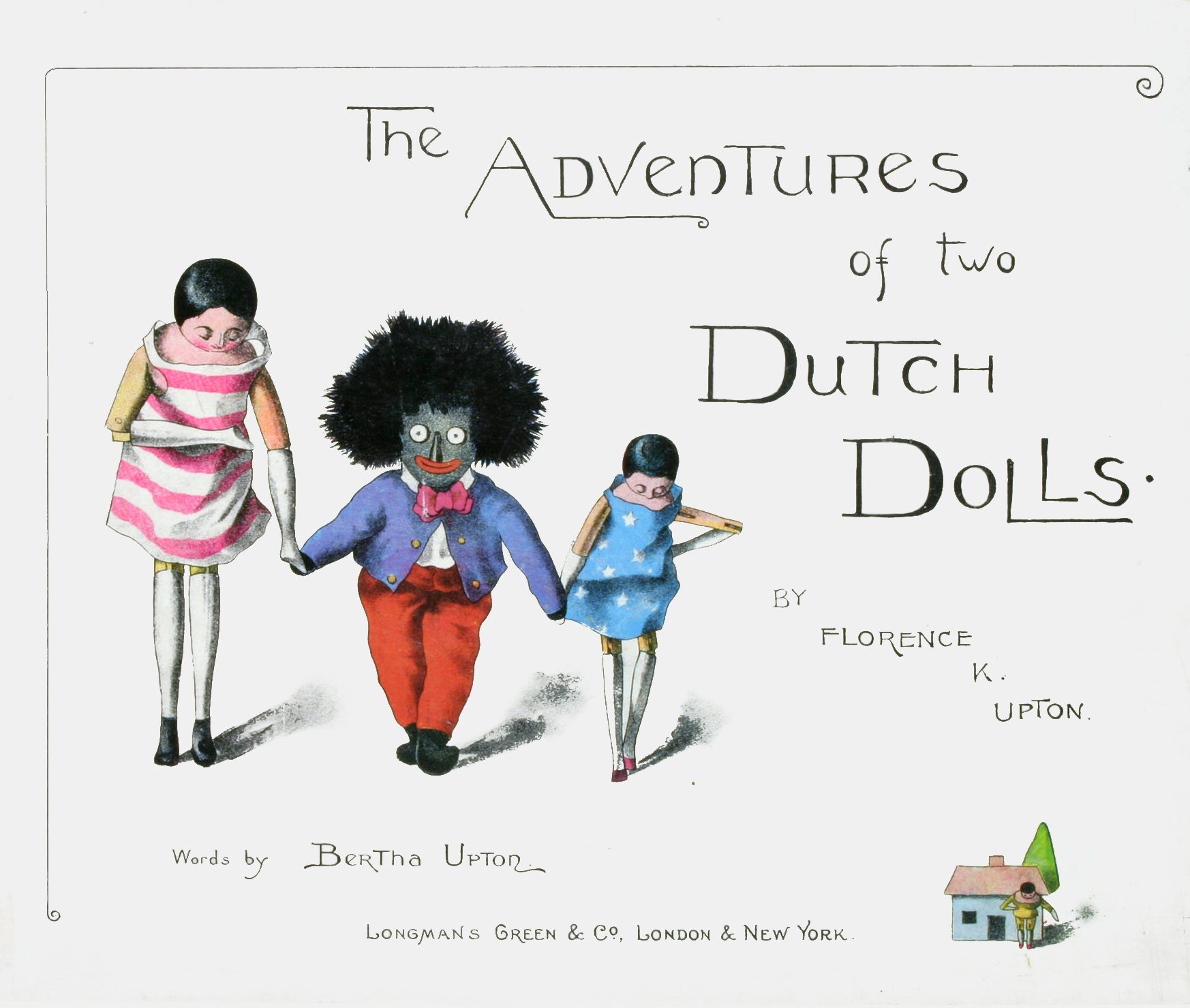 Cover of The Adventures of Two Dutch Dolls by Bertha and Florence Kate Upton.